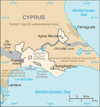 World Factbook map of Dhekelia SBA.